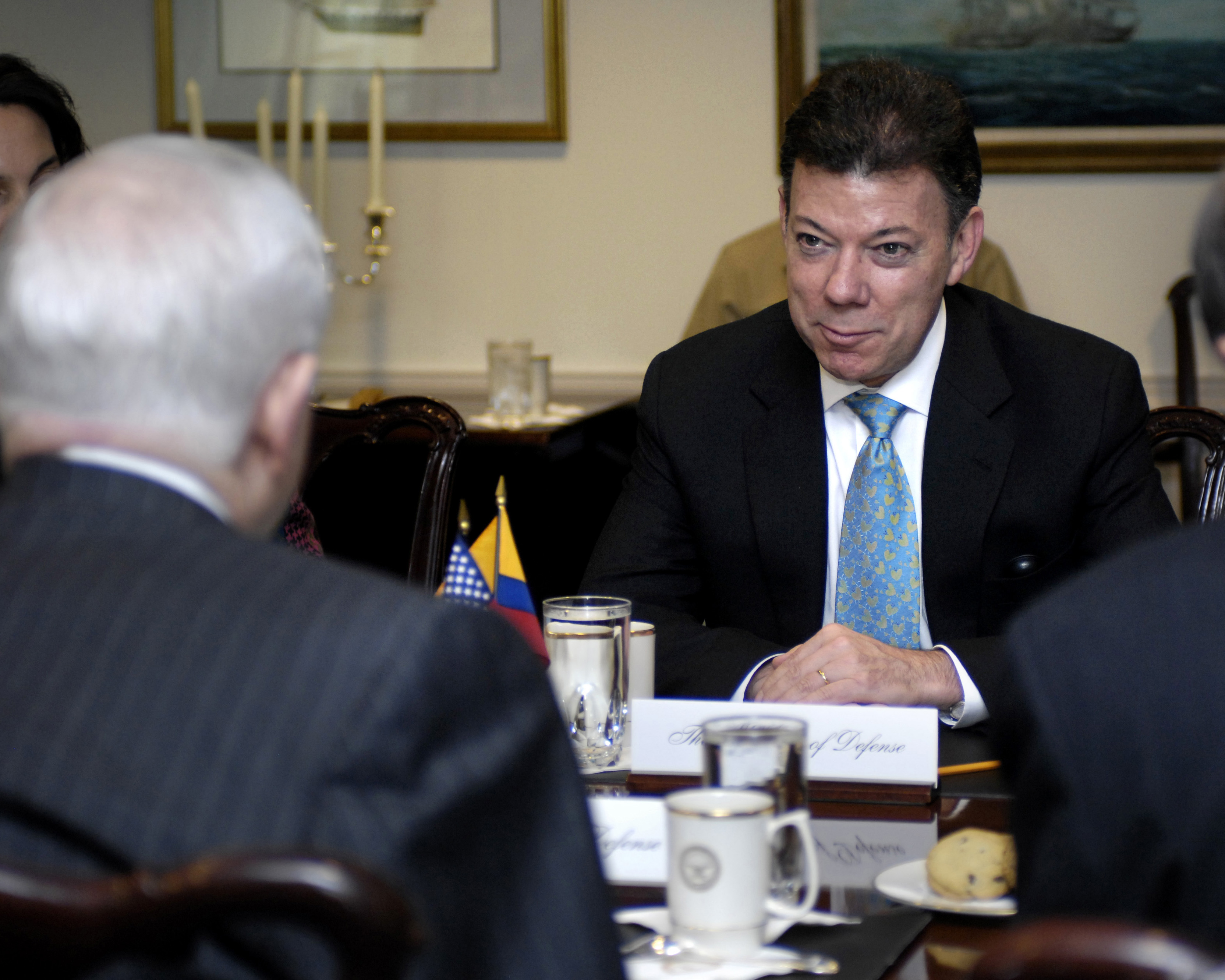 Secretary of Defense Robert M. Gates meets with Columbian Minister of Defense Juan Manuel Santos in the Pentagon on March 11, 2008.